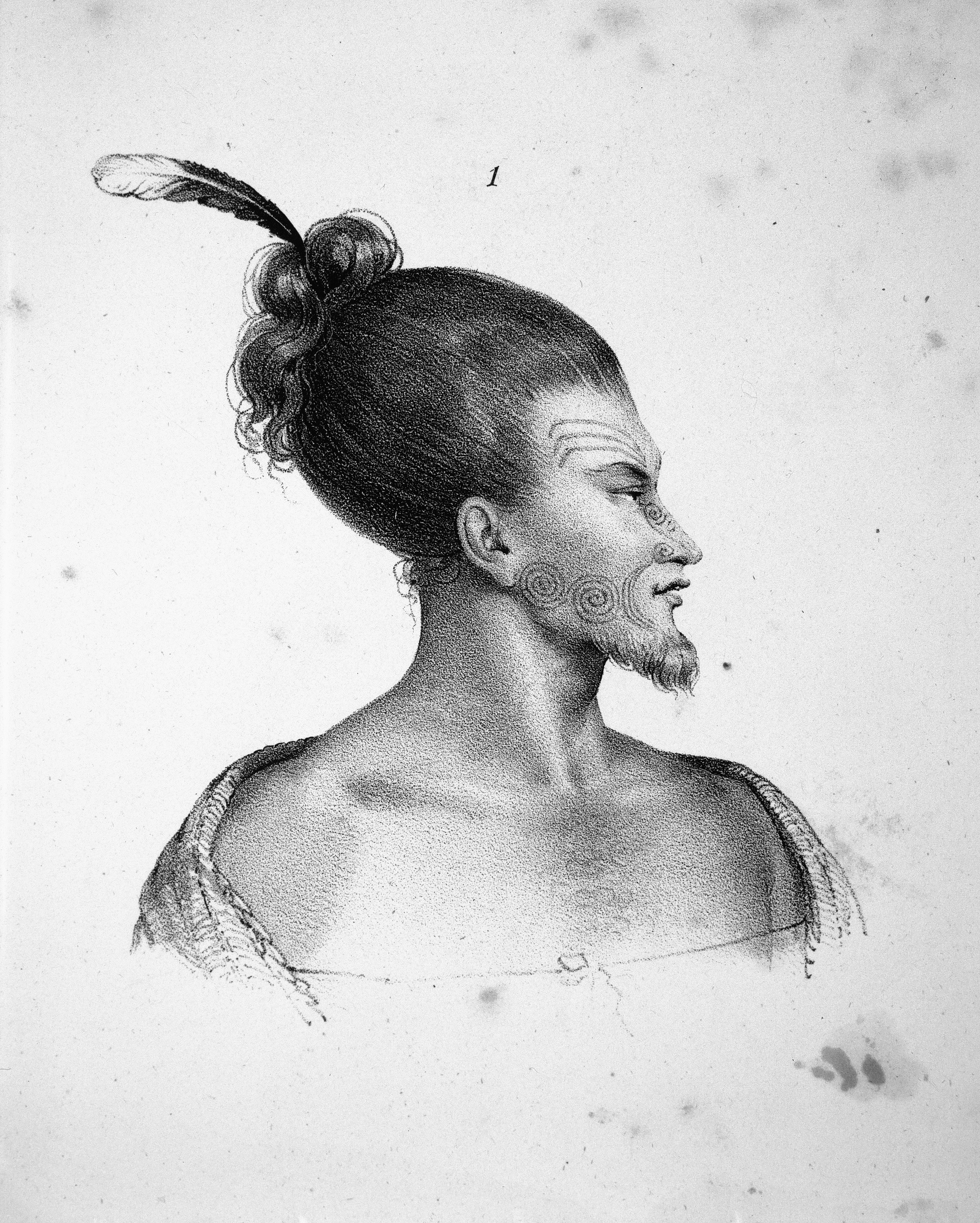 Head and shoulders portrait of a Māori man from Tolaga Bay. From a plate containing similar portraits another three men and a woman Lithograph, 515 x 342 mm